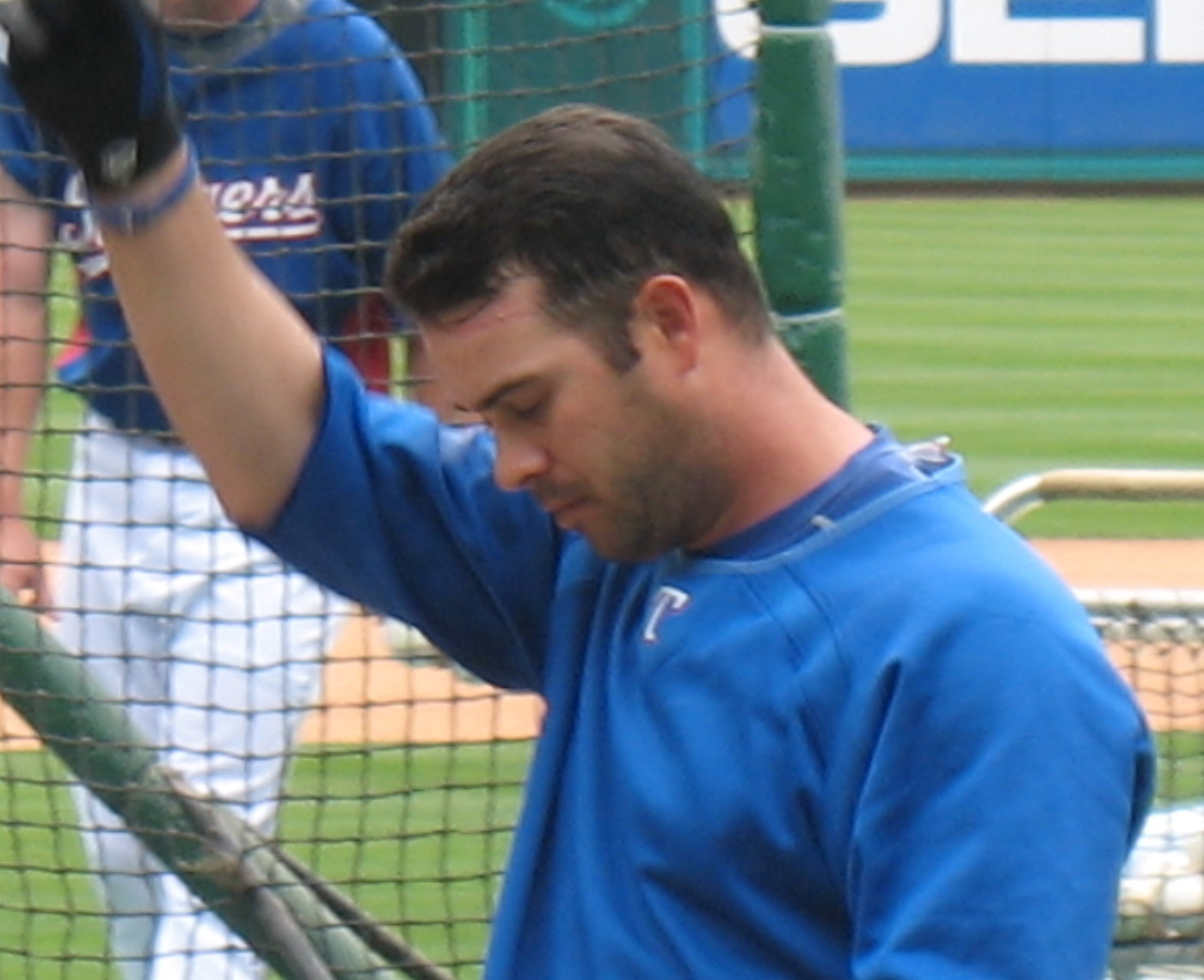 Ramon Vazquez during batting practice for the Texas Rangers home opener 2008